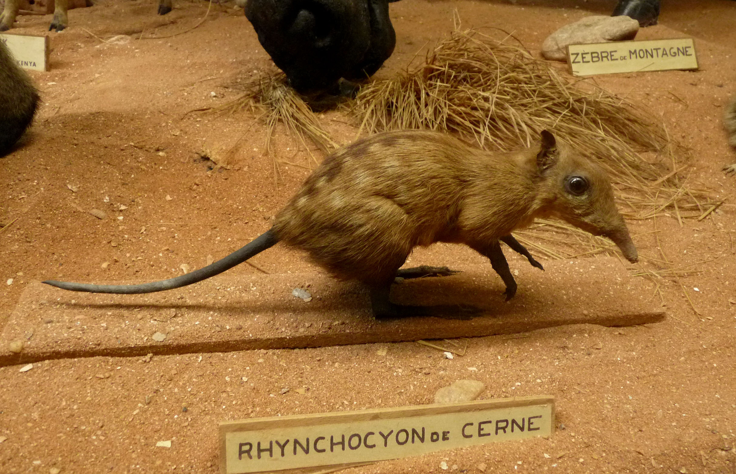 Rhynchocyon (Musée africain, Ile d'Aix)